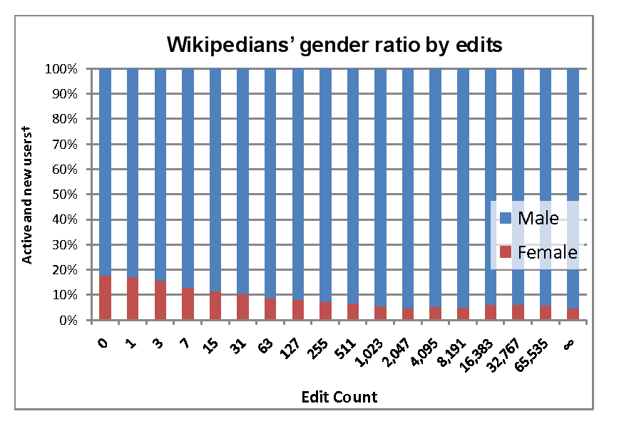 Male/female percentage among English Wikipedia accounts who state a gender in user preferences, plotted over the range of their number of edits. Sample: All accounts appearing in the RC table (by edits or new account creation), Jan 11, 2011 to Feb 10, 2011